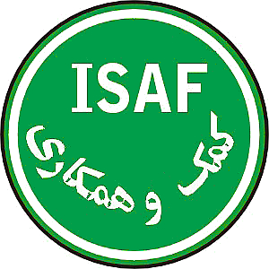 Seal of the International Security Assistance Force (ISAF). Pashto writing: کمک او همکاری (Komak wa Hamkari) meaning "Help and Cooperation".